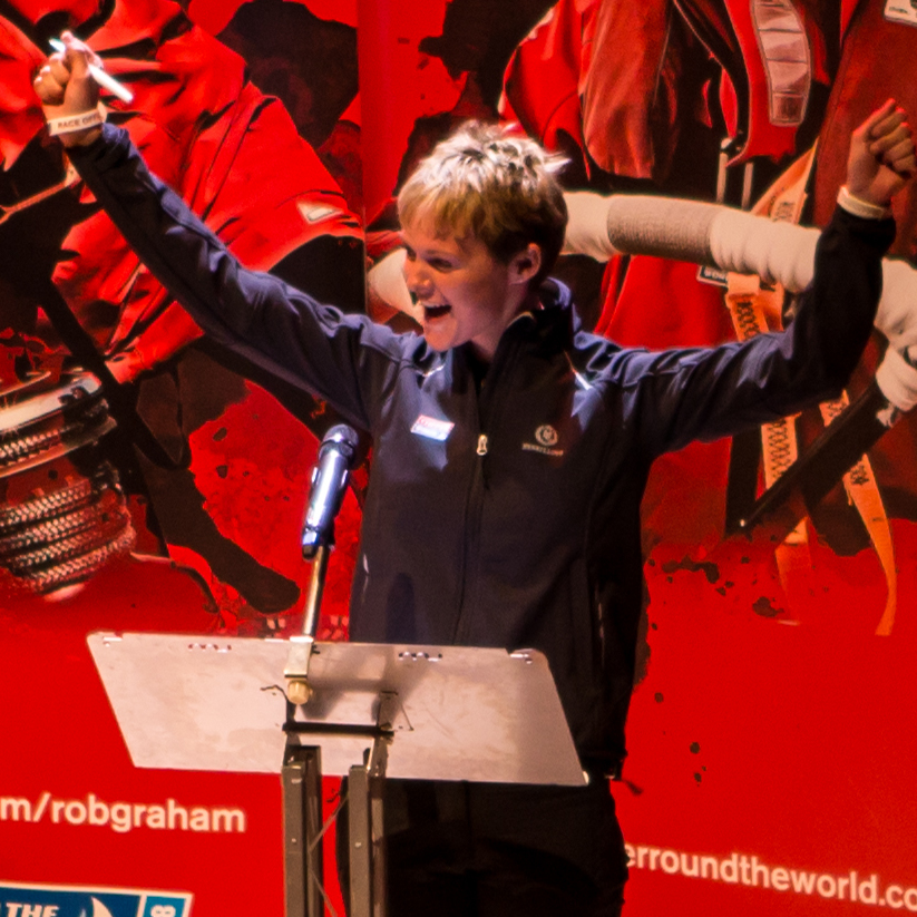 Crew Allocation Day, Portsmouth Team Nikki Henderson